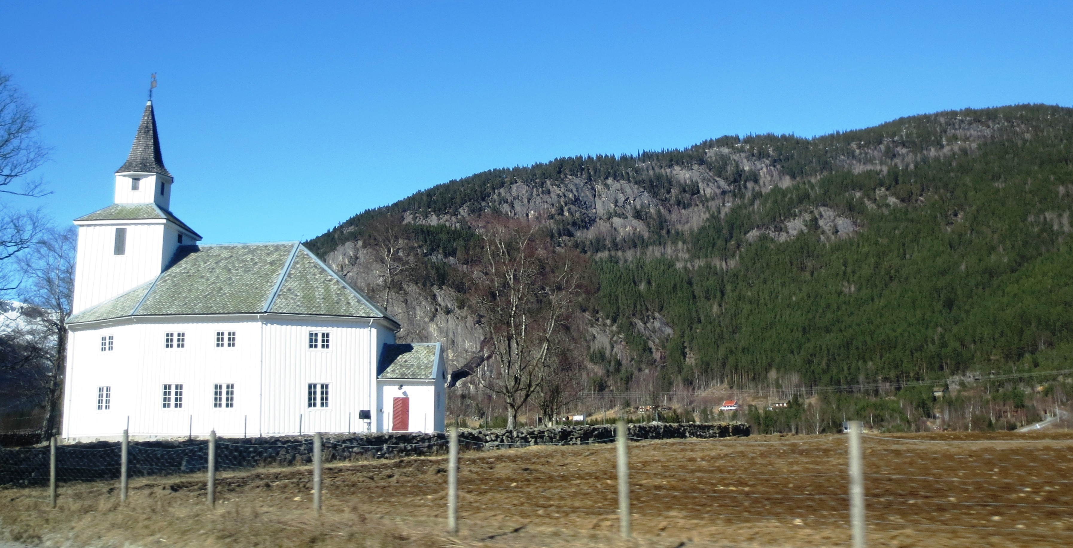 Valle municipality is the second from the north in the Setesdalen valley, Aust-Agder county, Norway.